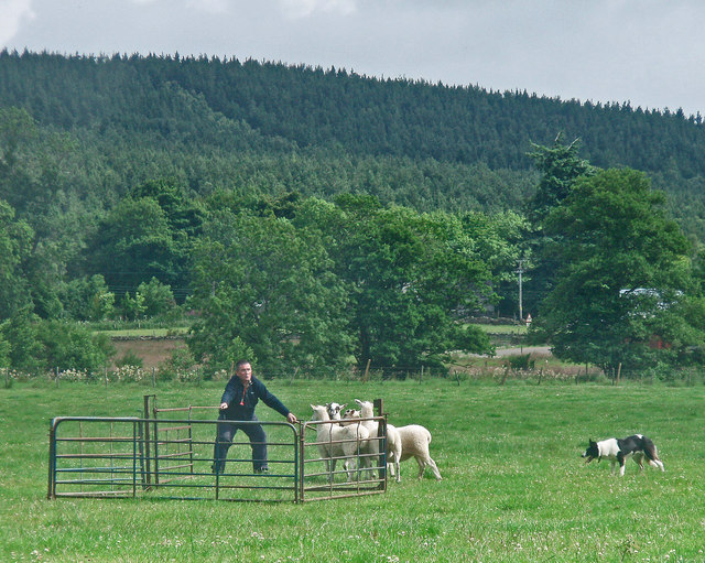 Border collie penning at Ballogie. This image was acquired at the 2008 Aboyne sheepdog trials held at Ballogie. This image is from the morning competitions.